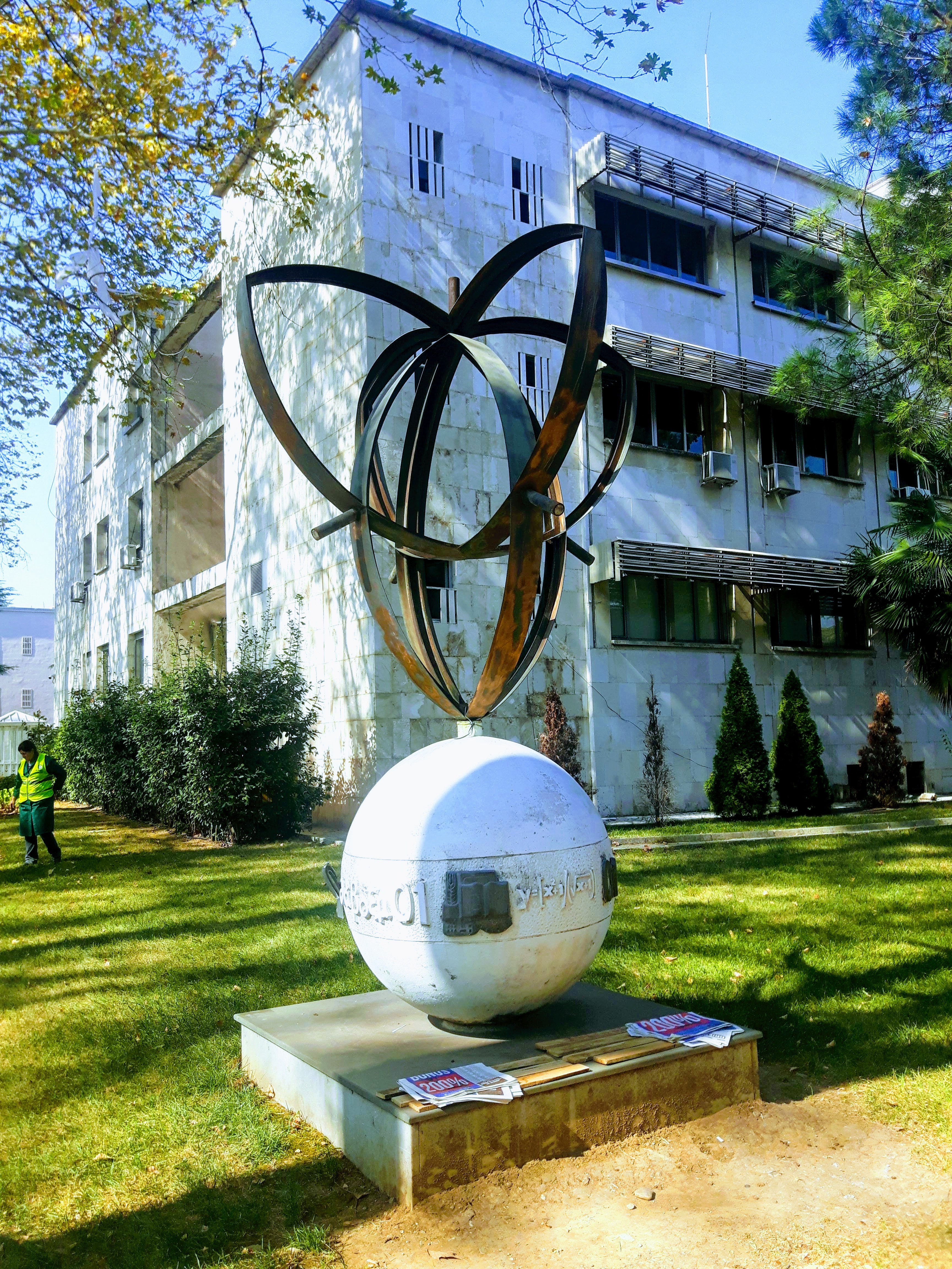 a sculpture in front of the INIMA building